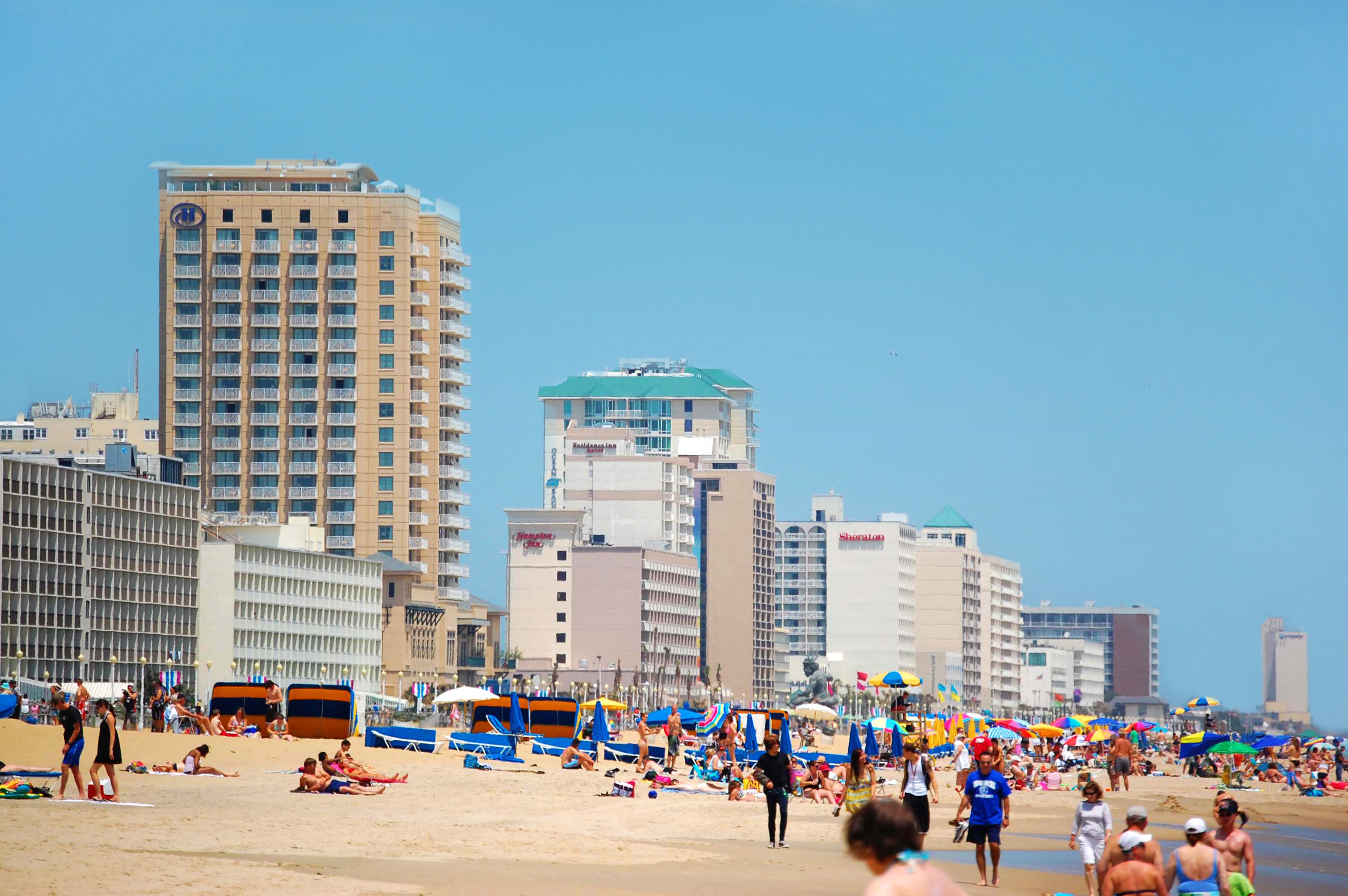 Virginia Beach, Virginia on Memorial Day 2009